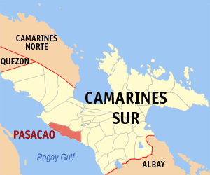 Map of Camarines Sur showing the location of Pasacao